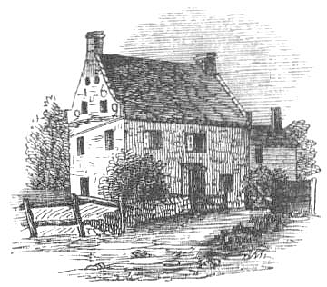 Vecht House